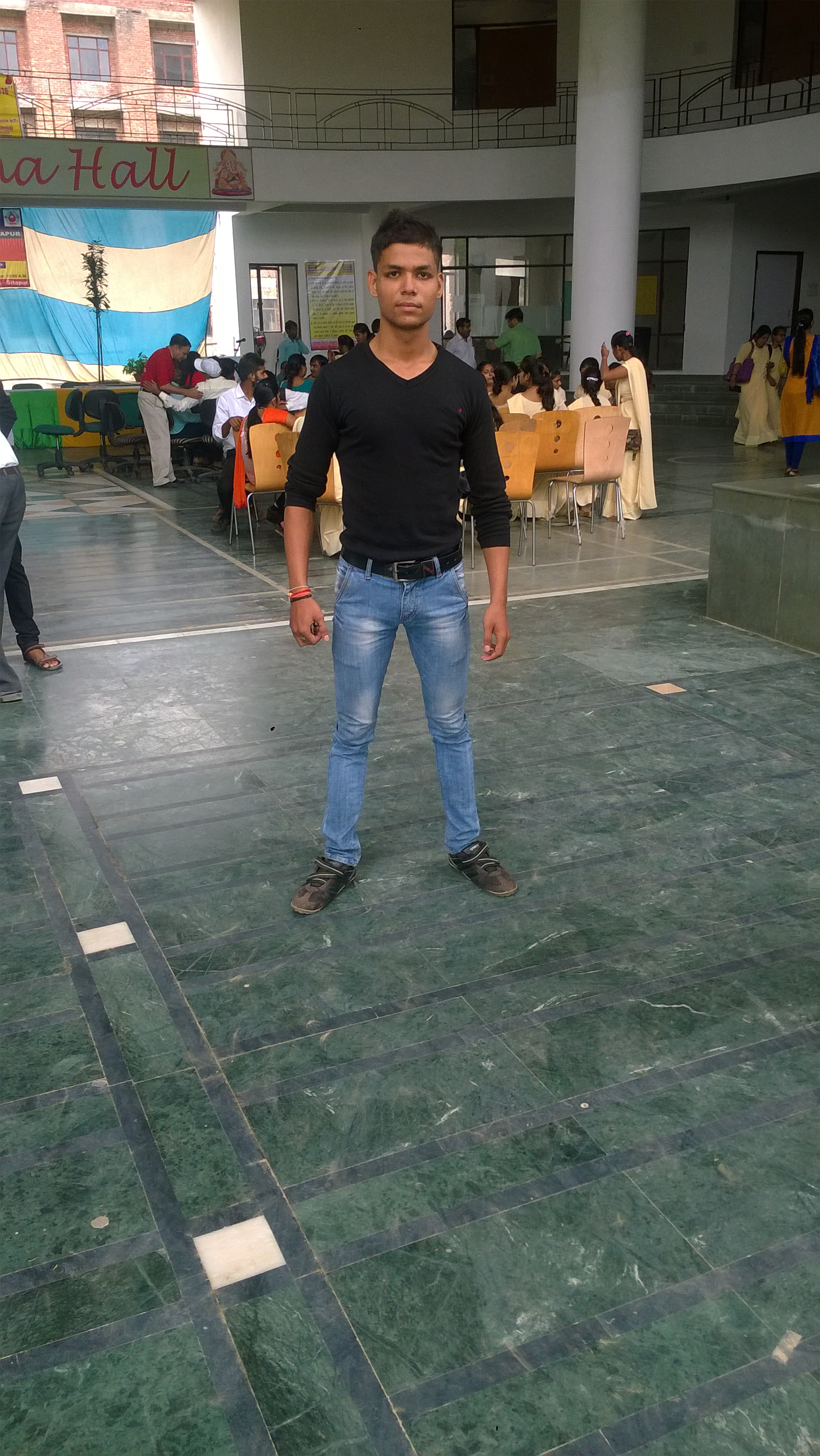 blood donating